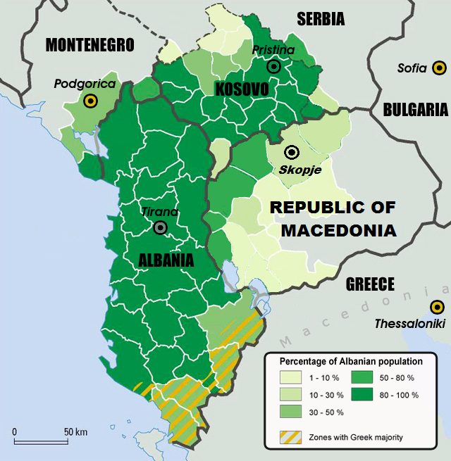 Map of ethnic Albanian population within the proposed irredentist idea of "Greater Albania" .